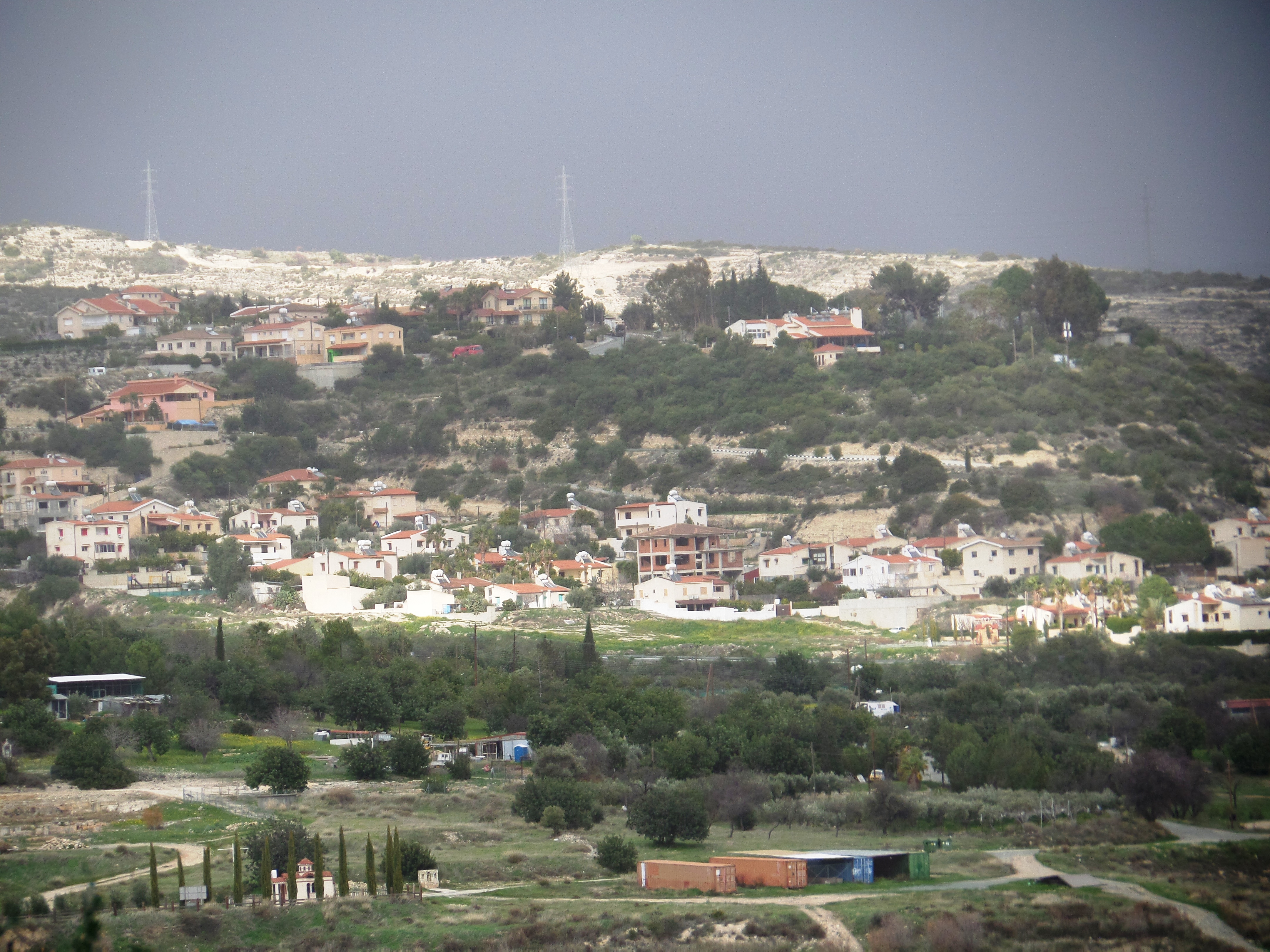 View of Alassa.